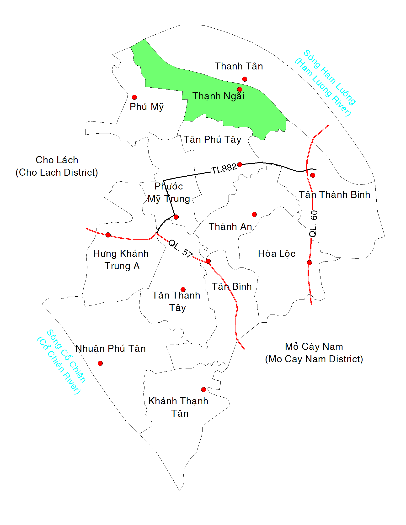 Locaiton map of Thạnh Ngãi commune, Mo Cay Bac District, Ben Tre province, Vietnam